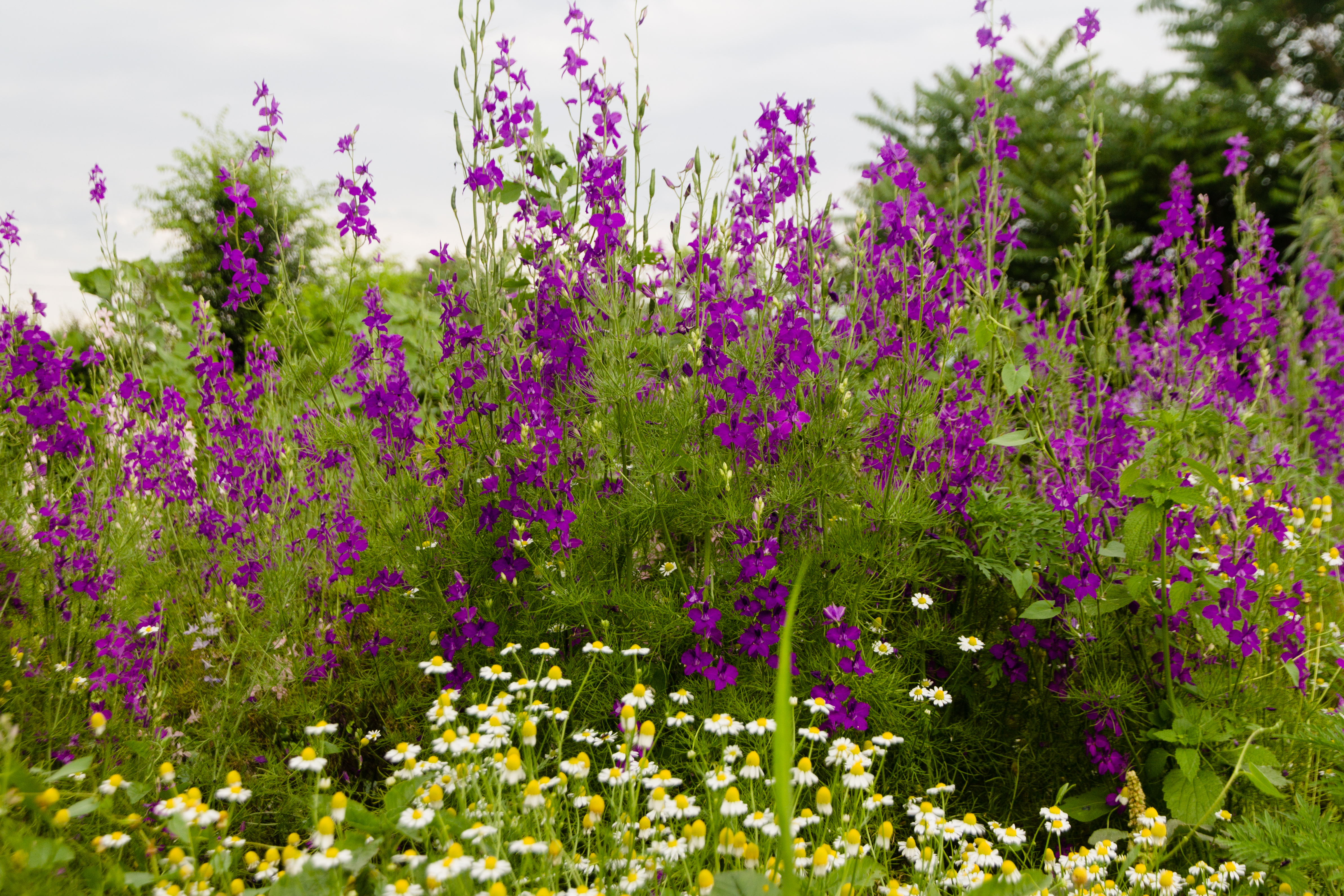 Spring in Ubezhenskaya, Russia